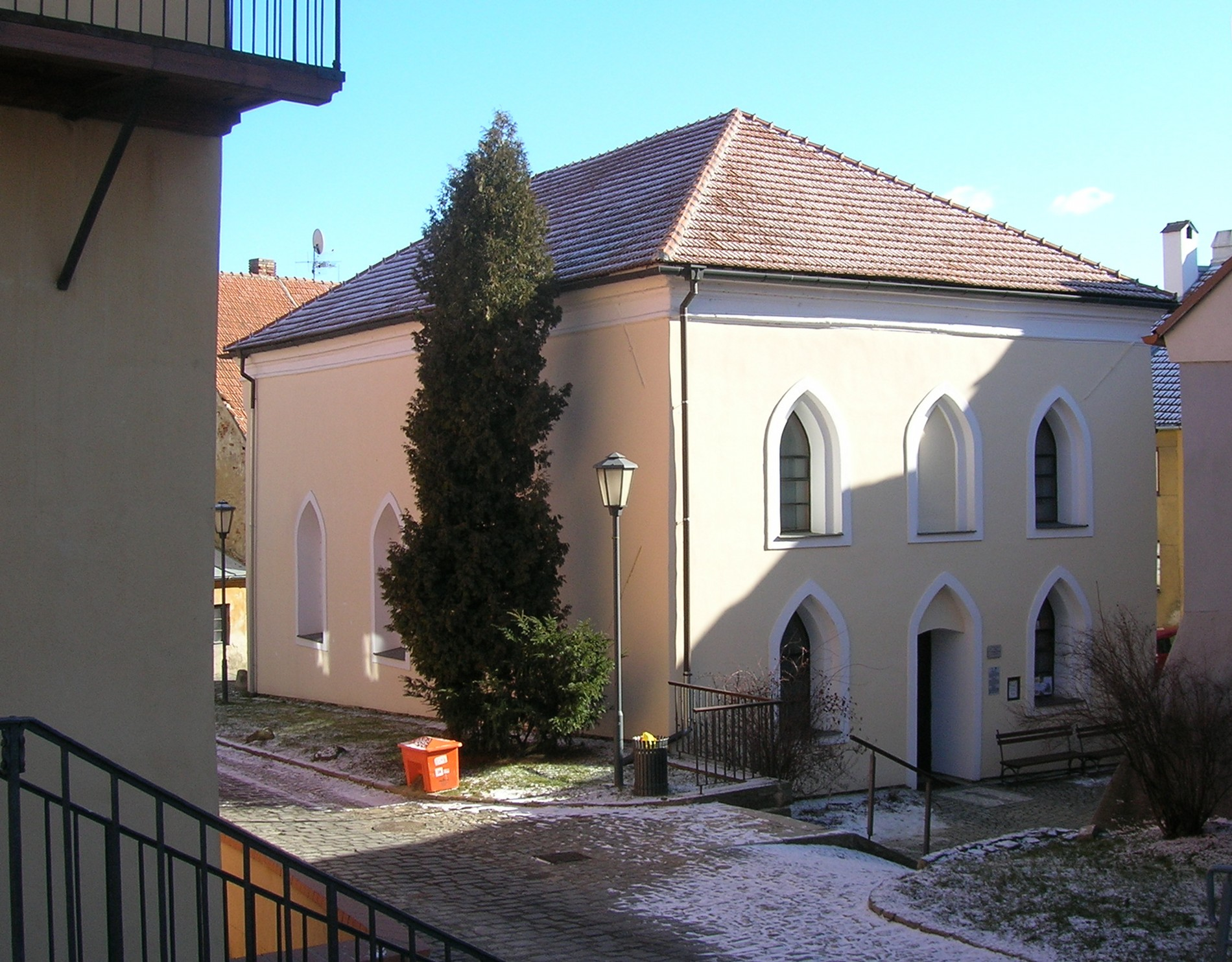 Třebíč-Zámostí. Front synagogue